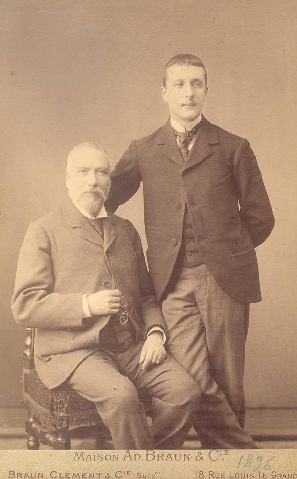 Greek mathematician Constantin Caratheodory (Κωνσταντίνος Καραθεοδωρής) (1873-1950) (right) pictured with his father Stefanos Karatheodoris.